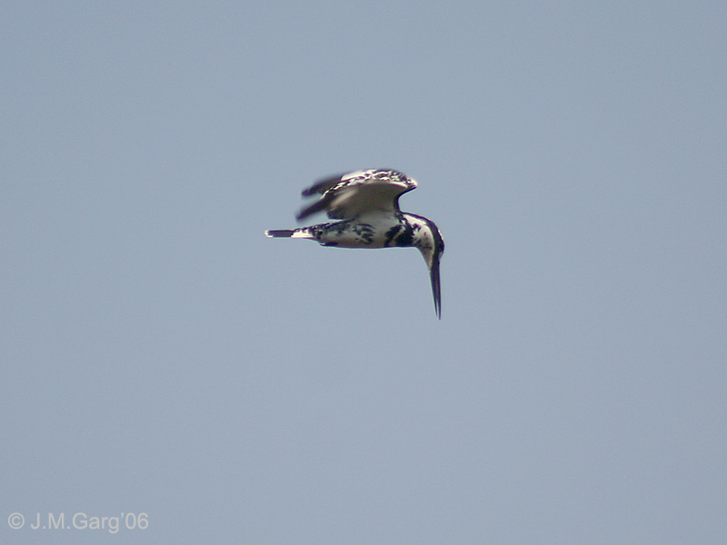 Pied Kingfisher (Ceryle rudis) in Bhopal, Madhya Pradesh, India.